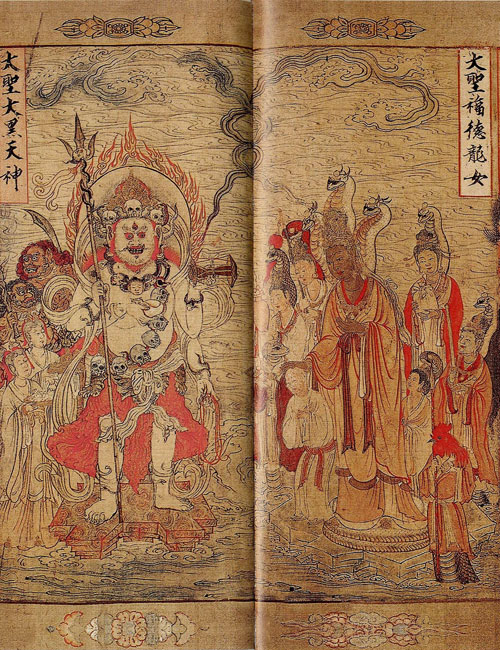 Extract of Zhang Shengwen's Huajuan Scroll (張勝溫 畫卷) (1180; 30 cm x 16m) held at the National Palace Museum (國立故宮博物院) in Taiwan.